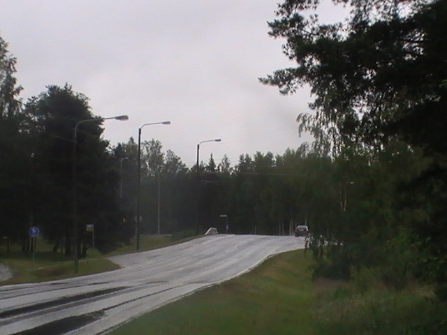 Finnish connecting road 2052 at Kourujärvi, Rauma. Profile of the road is mainly devious.